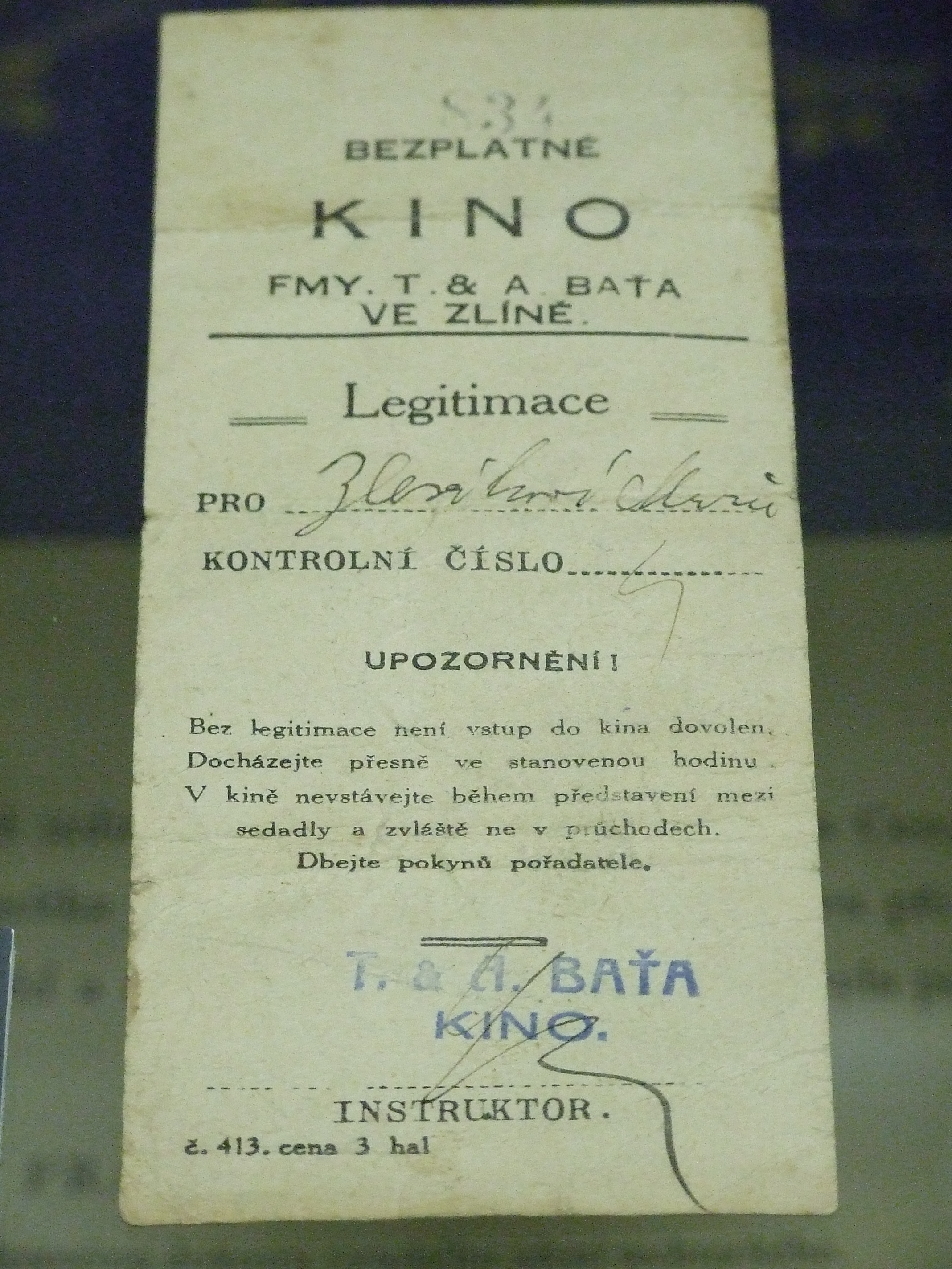 The Republic exhibition, National Museum in Prague